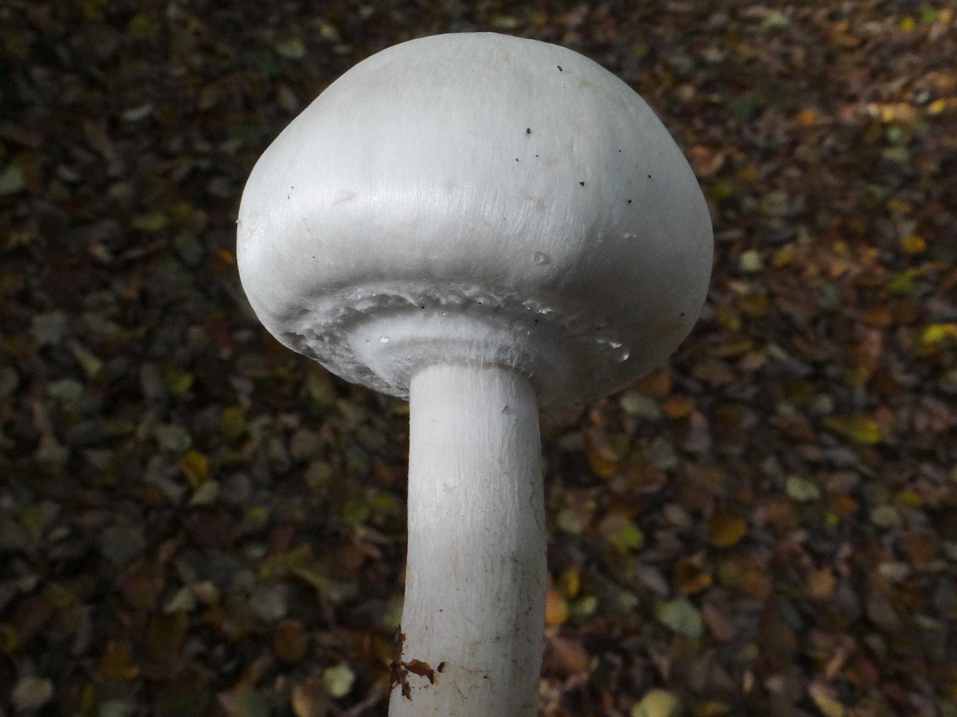 Agaricus sylvicola